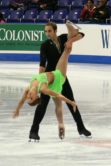 Tiffany Vise & Derek Trent at the 2006 Skate Canada International.